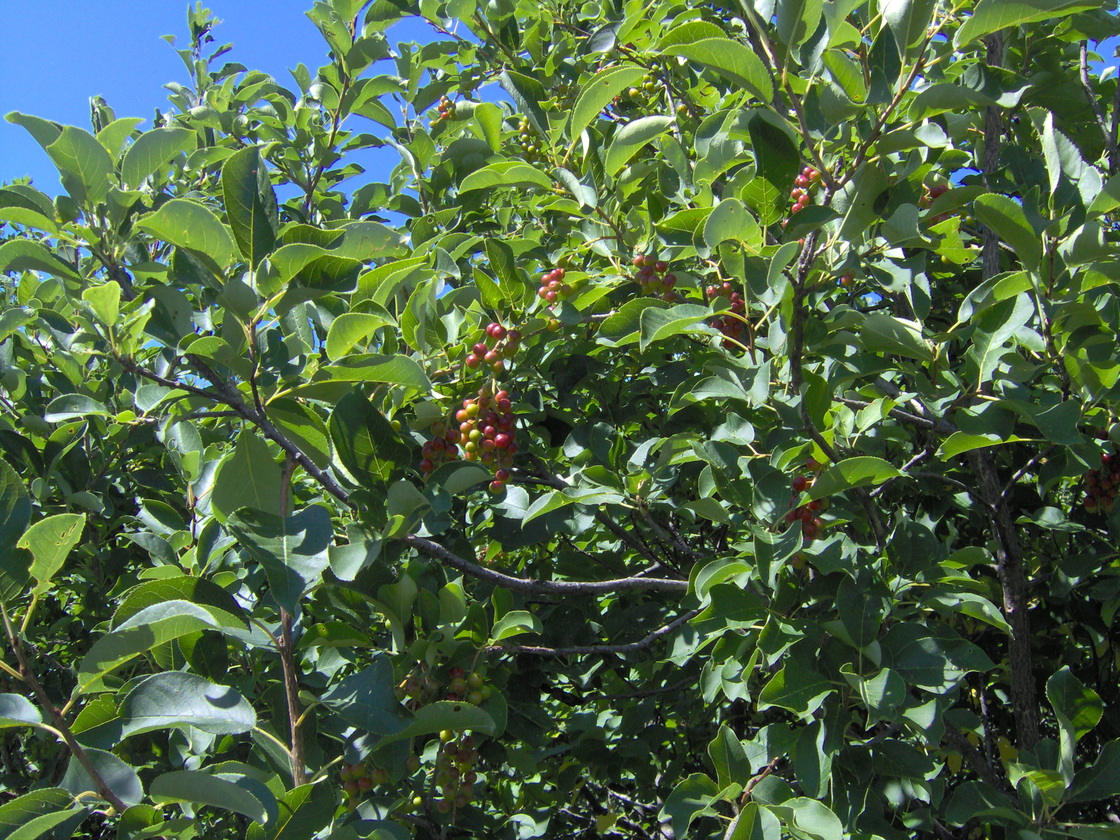 Prunus serotina